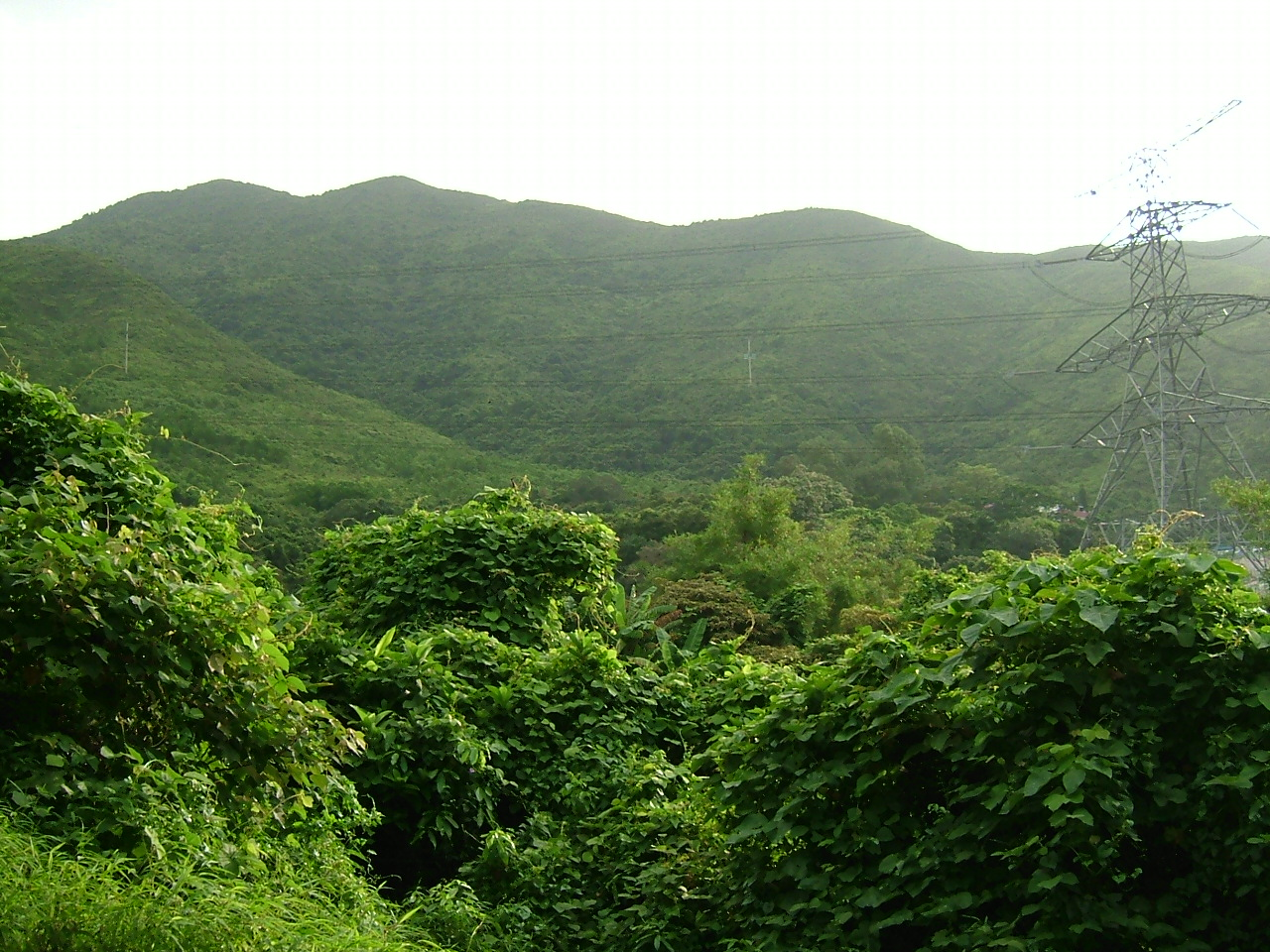 Tseung Kwan O 2004 taken by Vincent Ng.